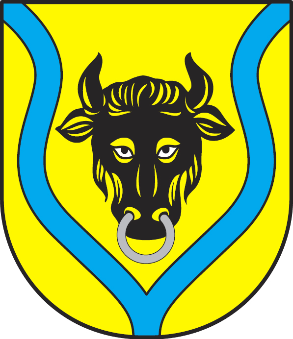 Old coat of arms of gmina Popów. Was in force till 05.2013